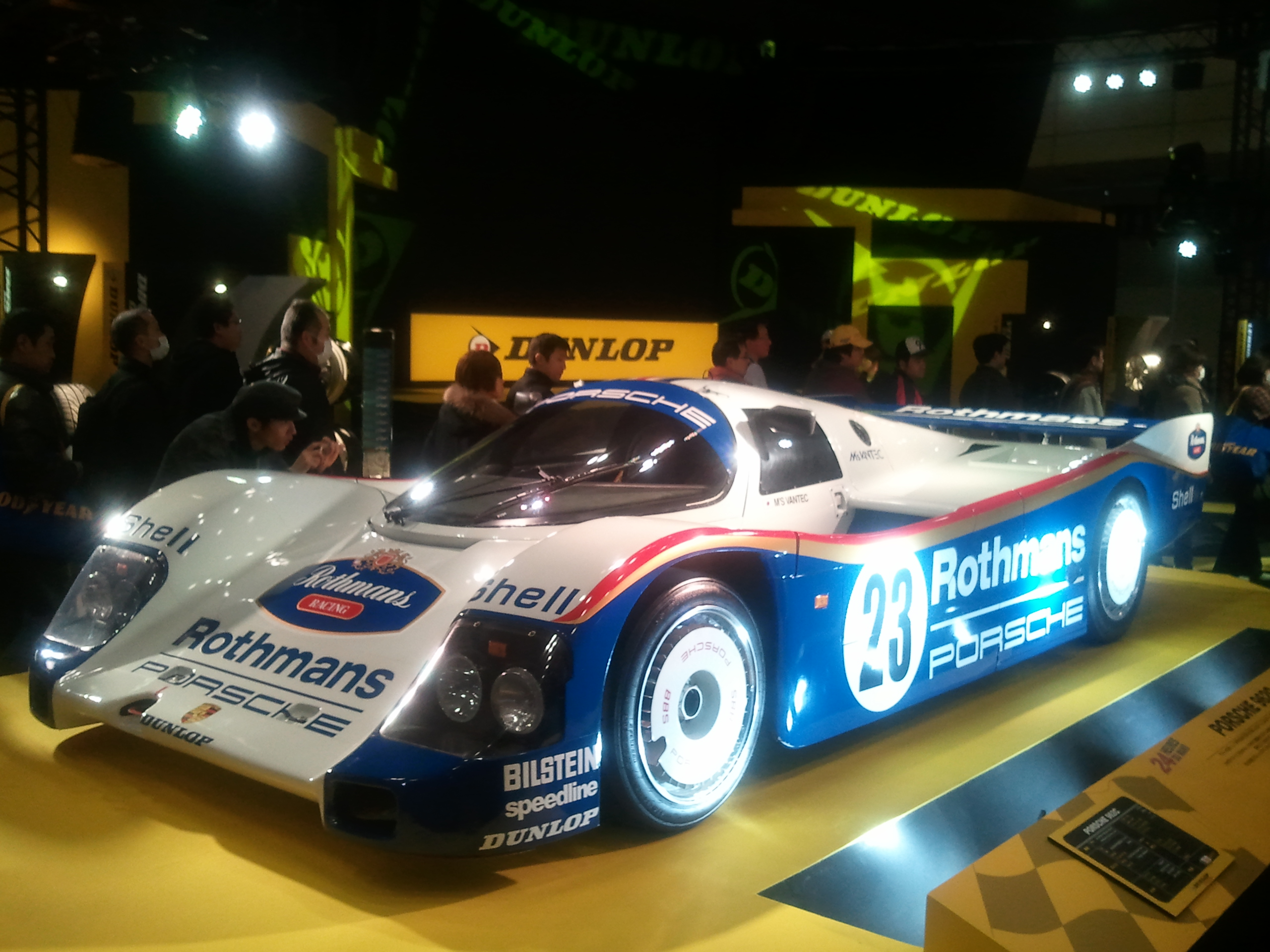 Rothmans Porsche 962C photographed at the Tokyo Auto Salon 2011.